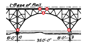 Elevation of St. Croix River Bridge, marked are the joints of the three-hinged arches (under live load they act as are two-hinged arches because the two sliding joints on top are fixed)